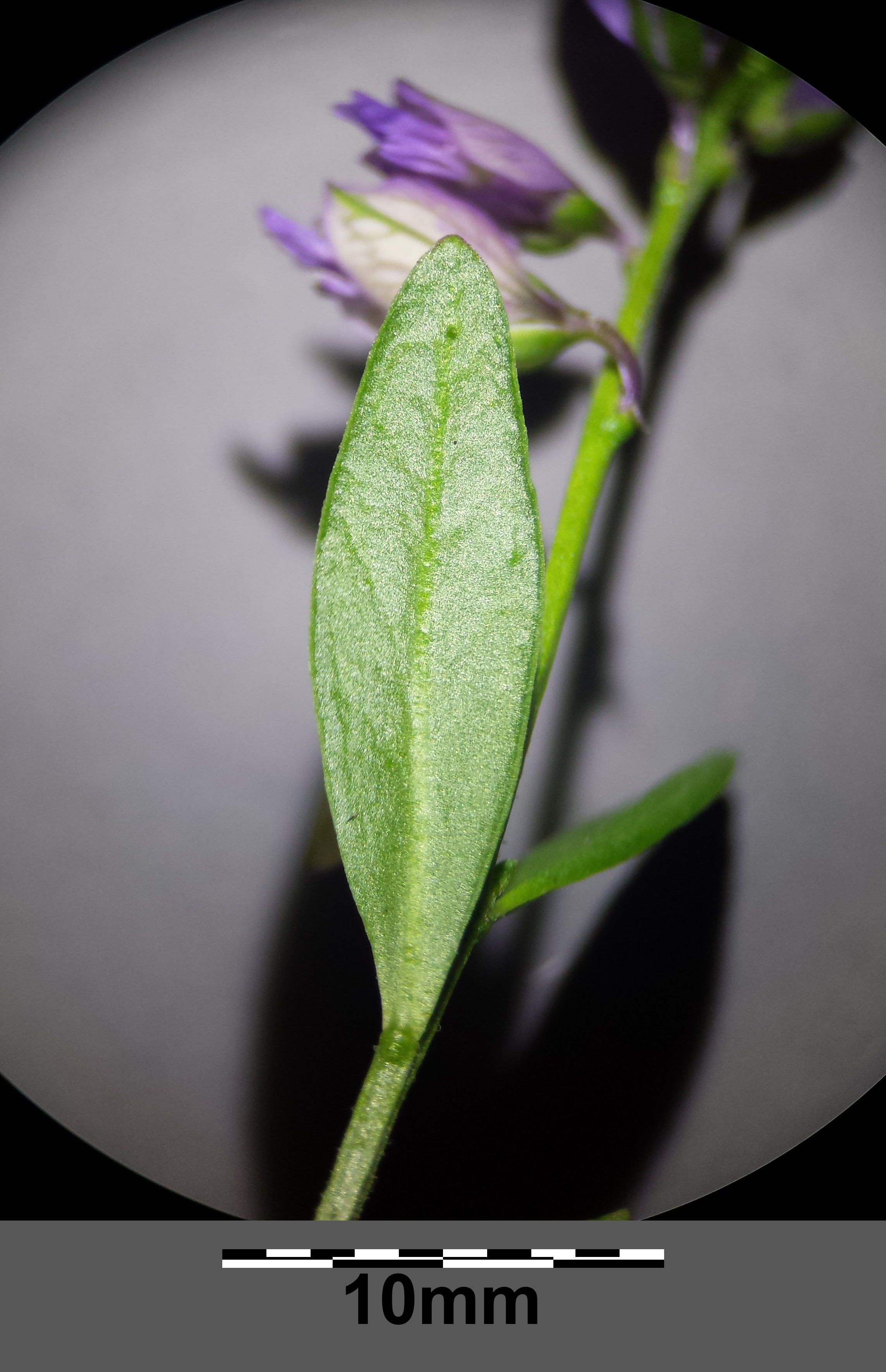 Leaf Taxonym: Polygala vulgaris subsp. vulgaris ss Fischer et al. EfÖLS 2008 ISBN 978-3-85474-187-9 Location: nearby Riebeis, Rappottenstein, district Zwettl, Lower Austria - ca. 750 m a.s.l. Habitat: wayside